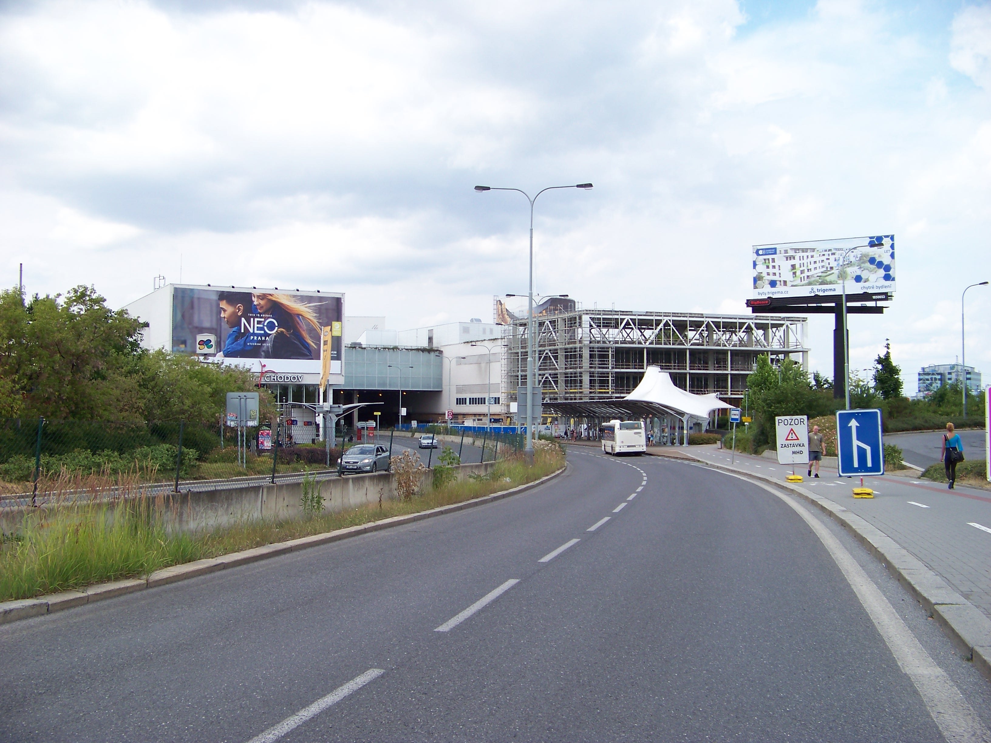 Prague-Chodov, Czech Republic. Roztylská street, Centrum Chodov.